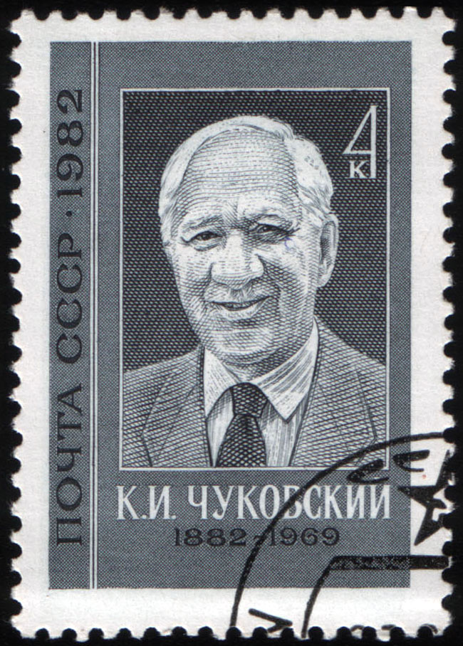 USSR stamp, K. Chukovsky, 1982, 4 k.